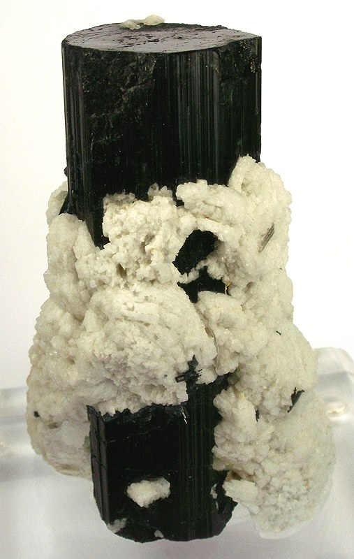 Albite, Schorl Locality: Elizabeth R. Mine, Chief Mountain, Pala District, San Diego County, California, USA (Locality at ) Size: small cabinet, 8.5 x 5.7 x 4.2 cm Schorl and Albite A very fine locality specimen of schorl, with albite, from the Elizabeth R. Mine, obtained from mine owner Roland Reed. Weighs 220 grams. Ex. William Larson Collection.